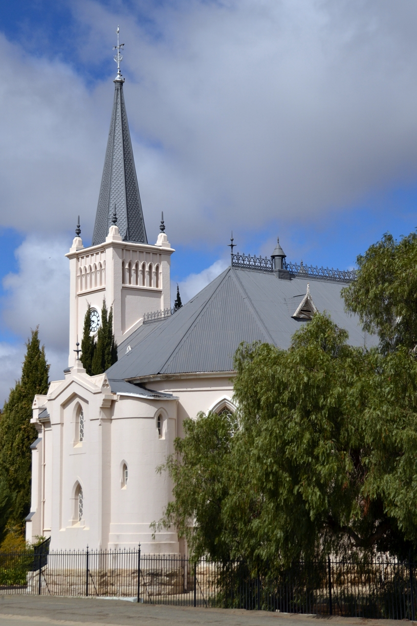 9/2/017/0005 15 Dorp Street, Calvinia, Northern Cape. The foundation-stone of this building was laid on 30 September 1899. The church was inaugurated in November 1900. It is an imposing Neo-Gothic cruciform church that was designed by J Gaysford